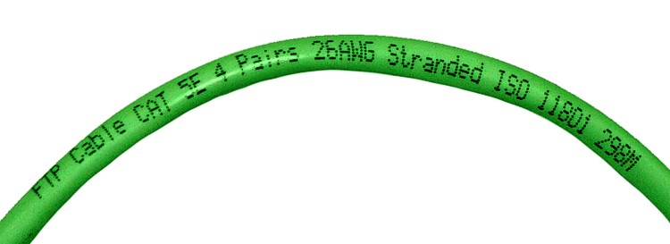 twisted pair ftp description